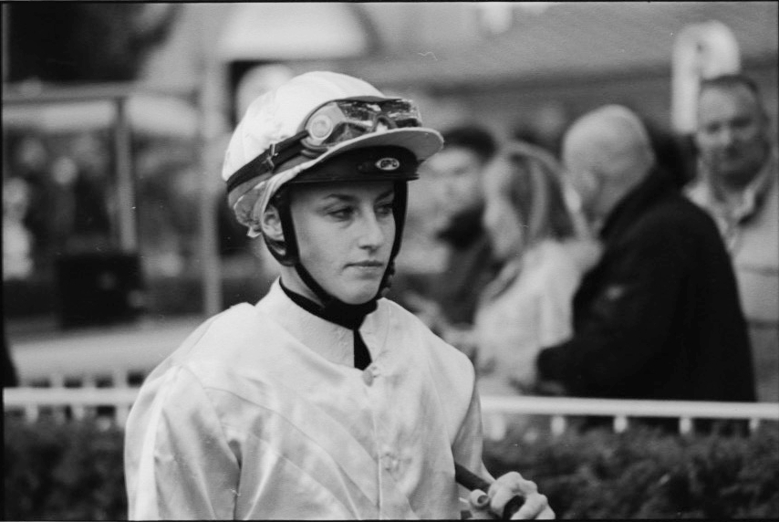 Sibylle Vogt 2019.